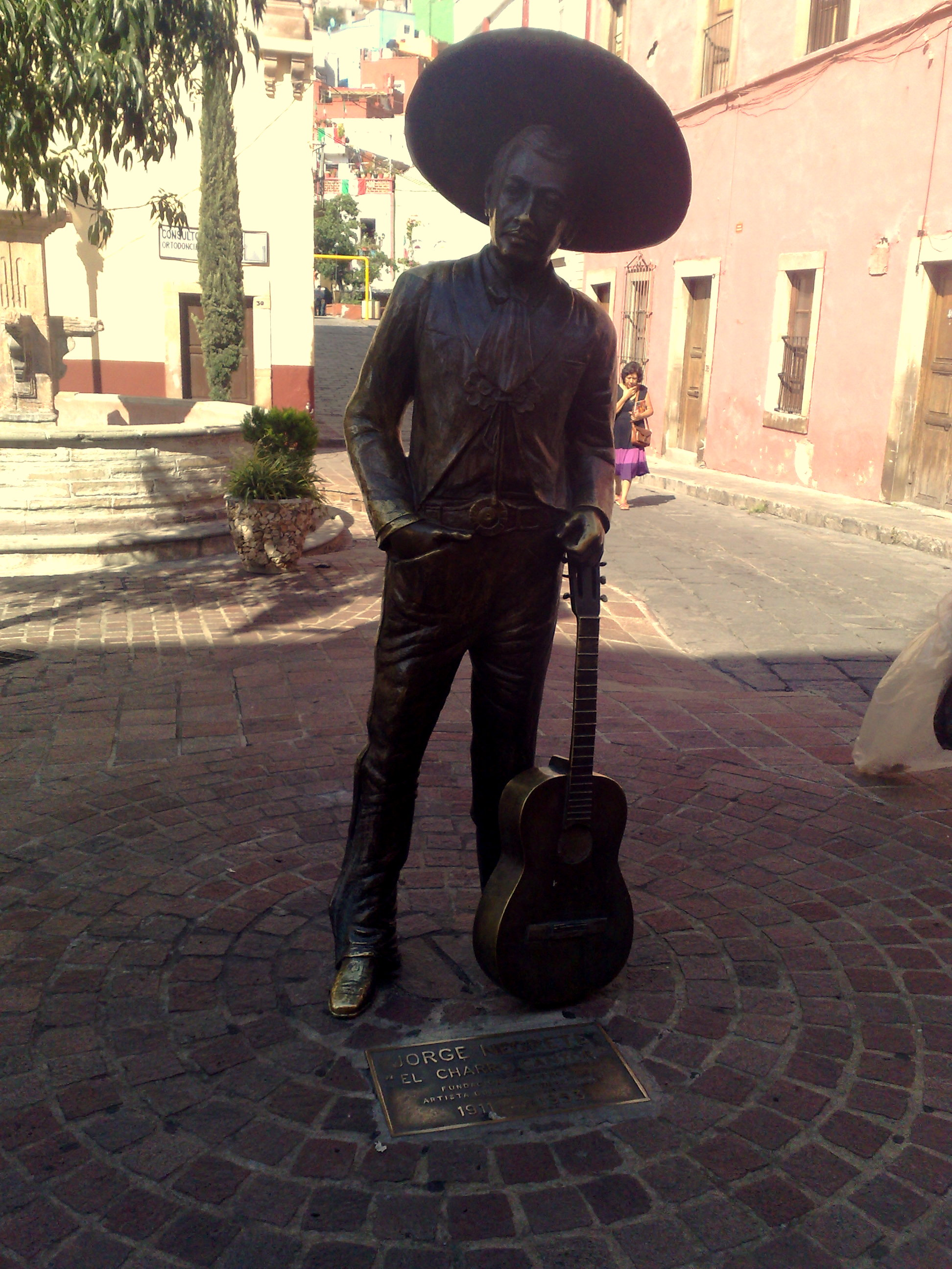 Located to the left of "El Templo de san Francisco de Asis"